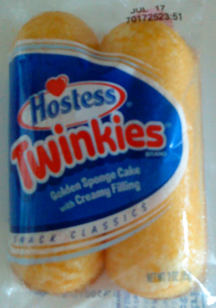 Twinkies